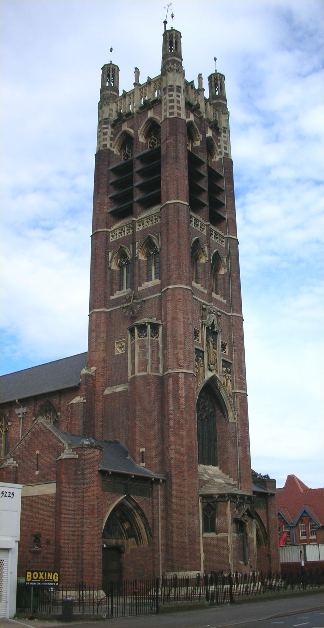 Northeast tower of St Agatha's parish church, Stratford Road, Sparkbrook, Birmingham, seen from the east